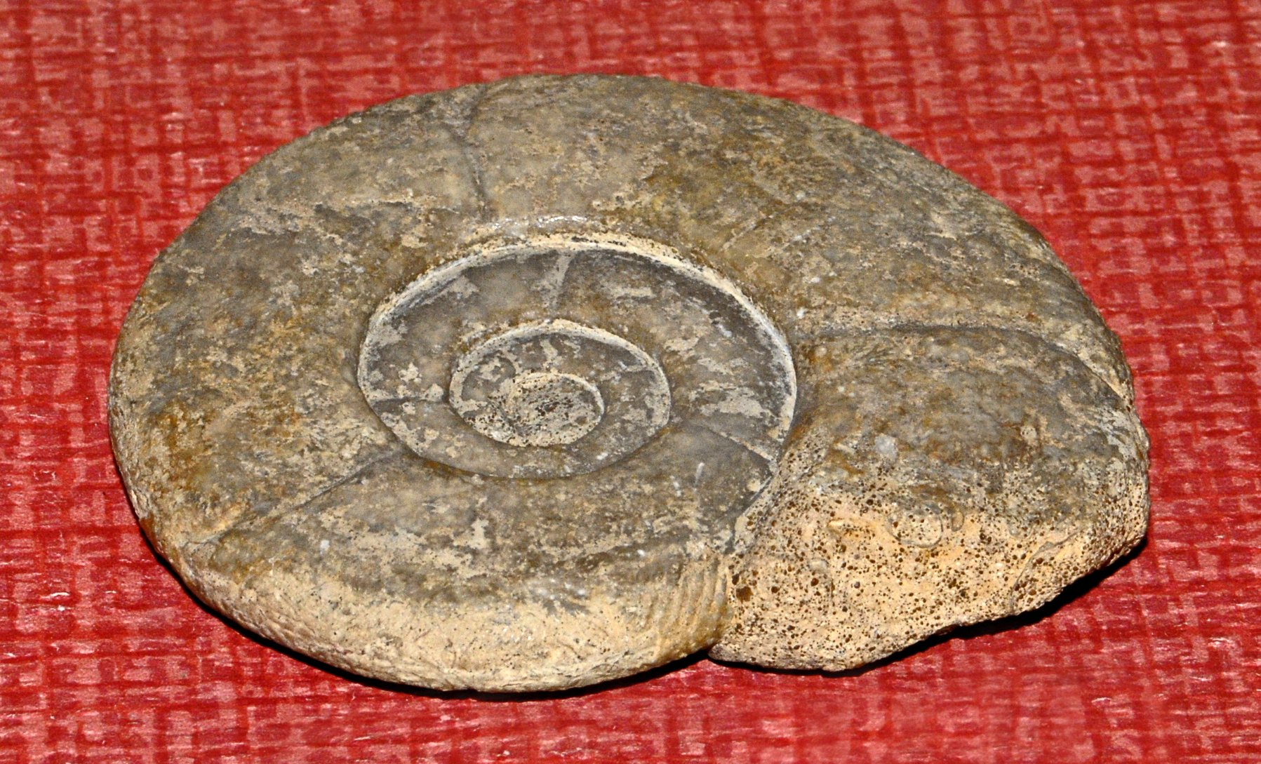 Crop of file in filename